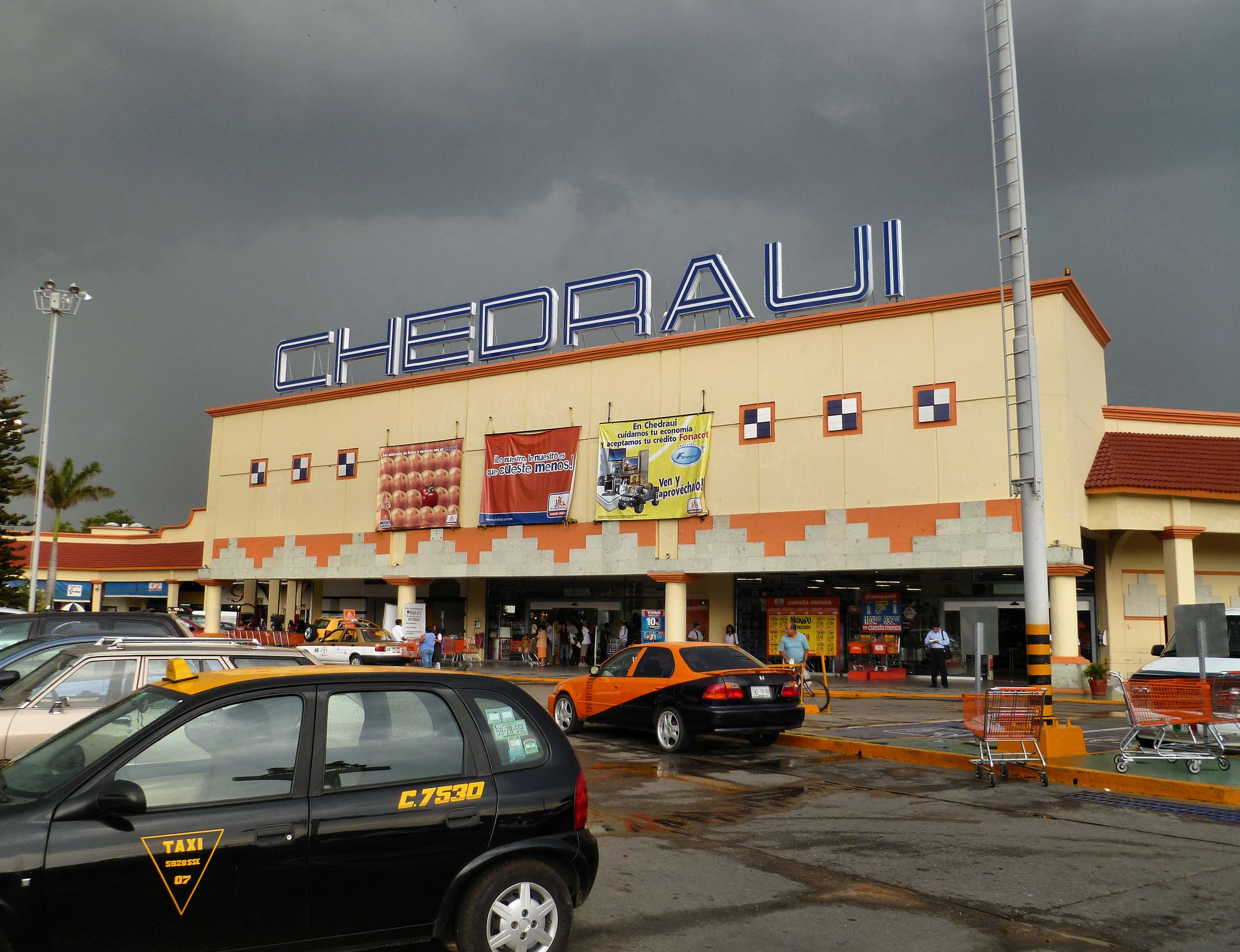 Chedraui in Oaxaca, Mexico. This photo may incorporate a commercial logo or signage, but is free under Mexican Laws governing freedom of panorama - See COM:CRT/Mexico#Freedom of panorama.